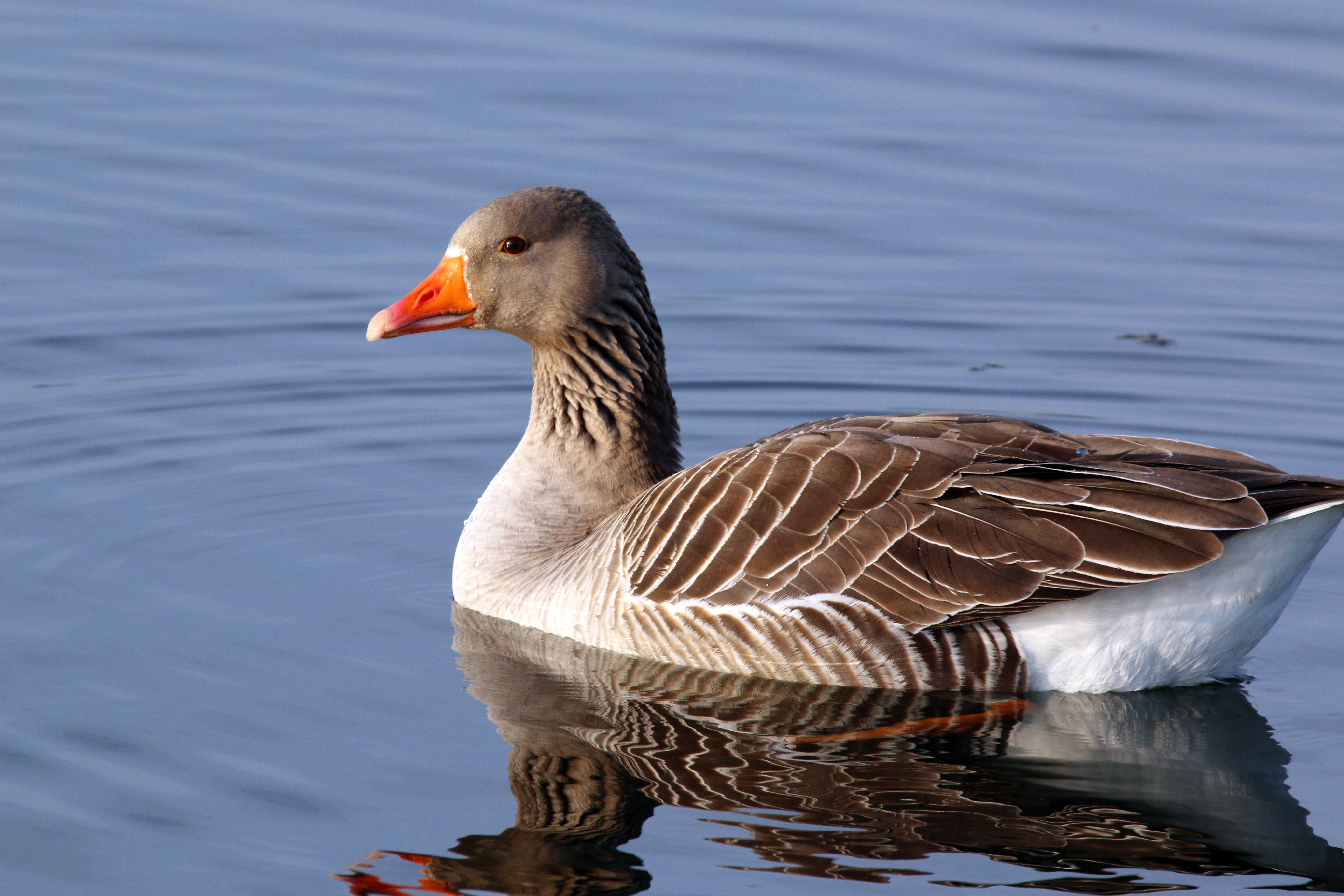 Greylag Goose Anser anser swimming, Farmoor Reservoir, Oxfordshire